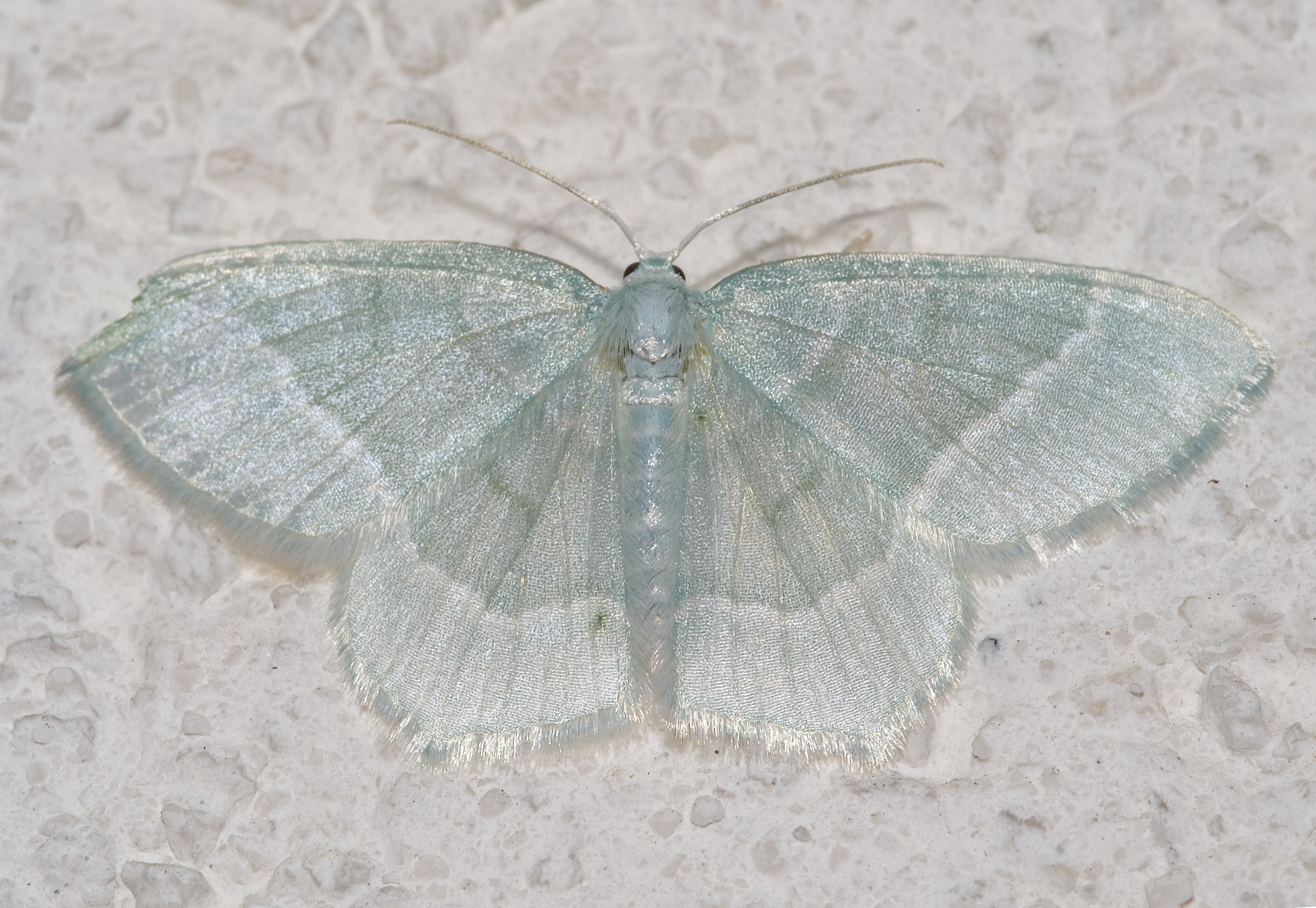 Please report references to kulacgmx.at.